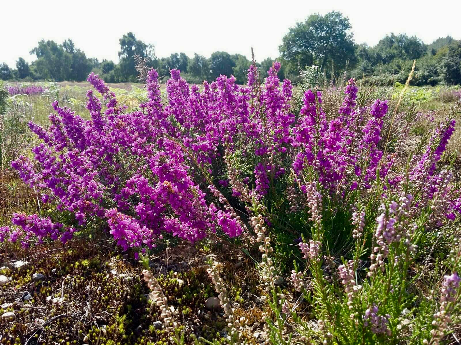 Heather on Dartford Heath